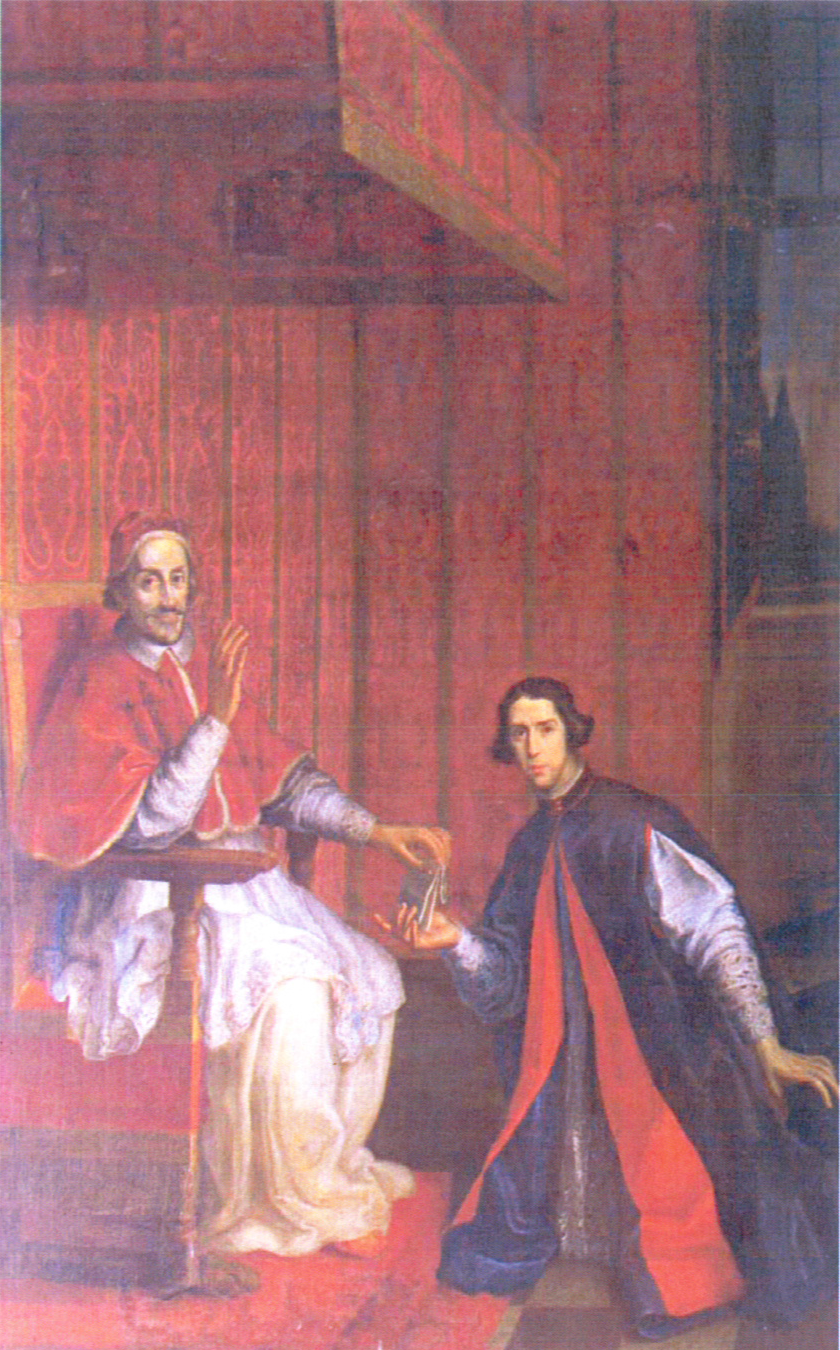 Pope Innocent XI hands Dom Luís de Sousa the Papal Brief to the Calhariz Chapel.